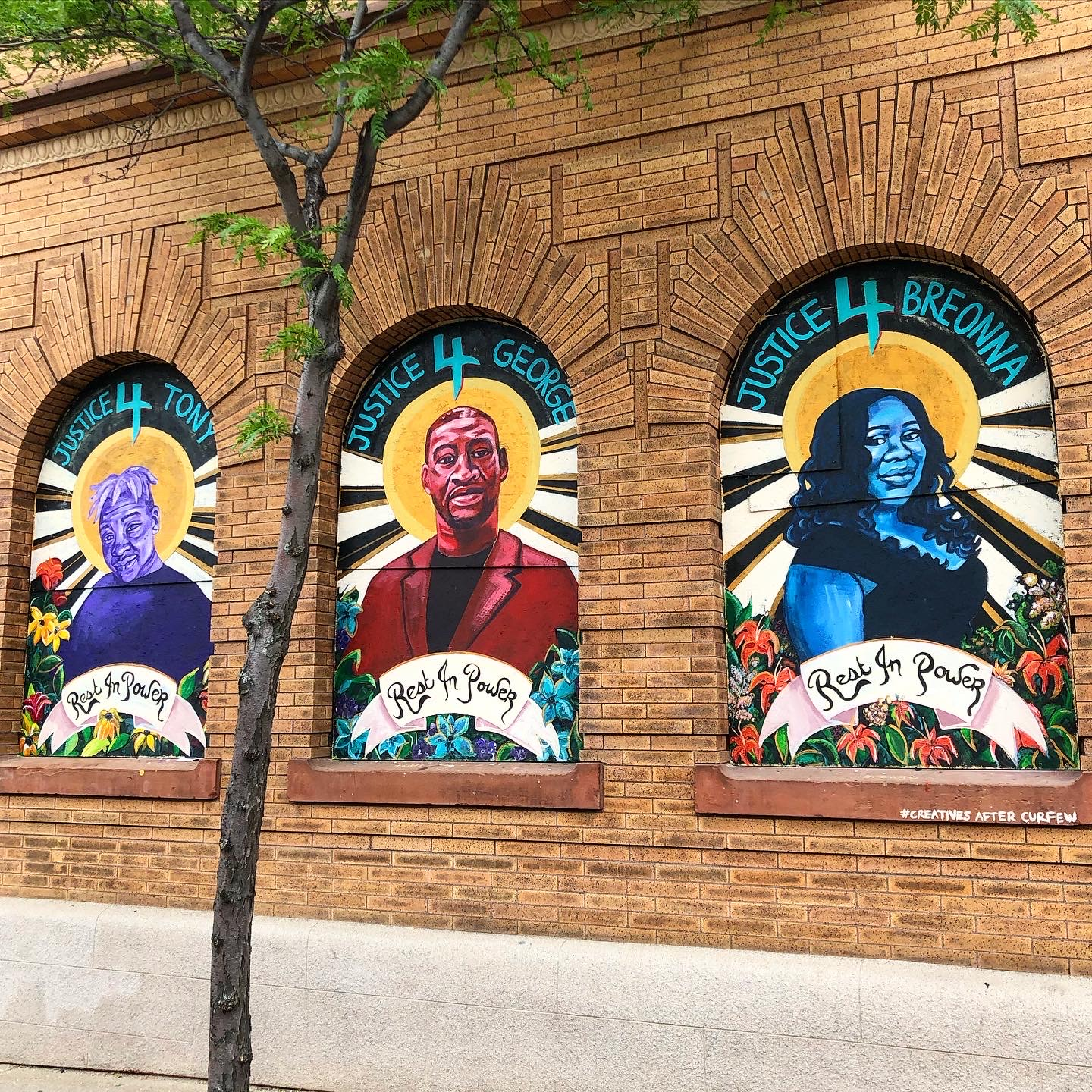 A mural in Minneapolis, Minnesota depicting three Black Americans who were killed by police officers in 2020: George Floyd, Tony McDade, and Breonna Taylor. This mural was painted by Leslie Barlow as part of the Creatives After Curfew program organized by Leslie Barlow, Studio 400, and Public Functionary.